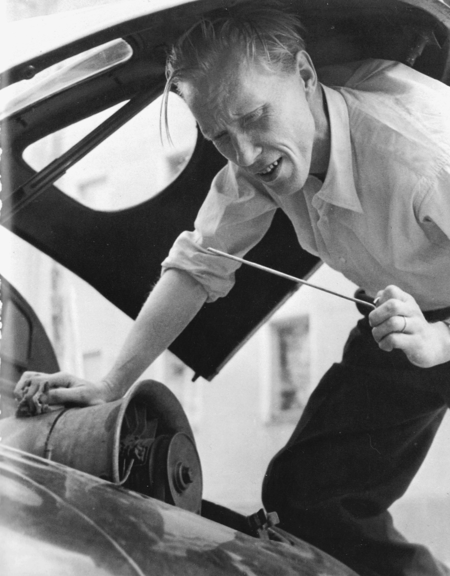 Photograph of the Finnish musicologist and pianist Timo Mäkinen (1919–2006).